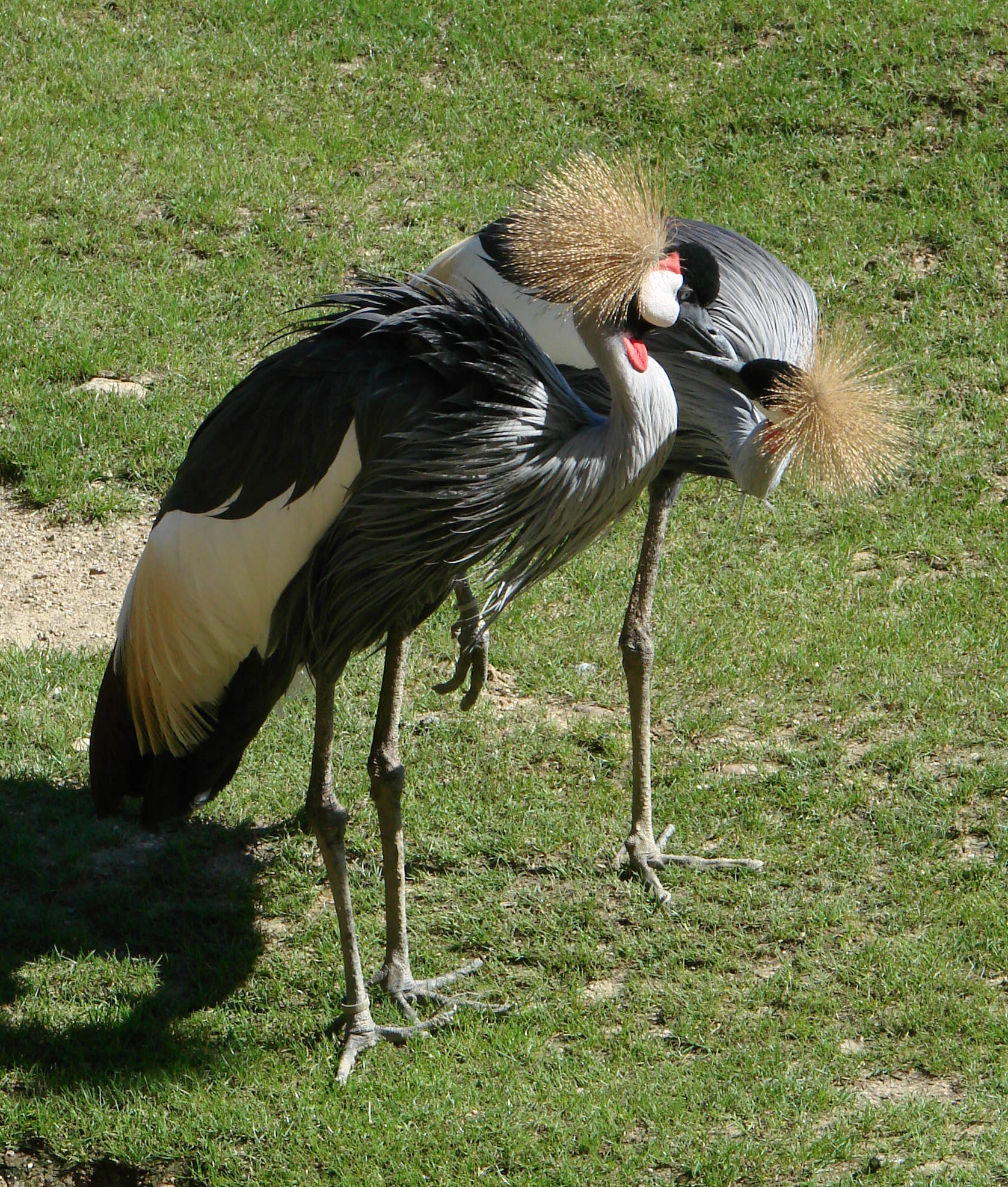 Grey crowned cranes (Balearica regulorum), zoo d'Amnéville, France.